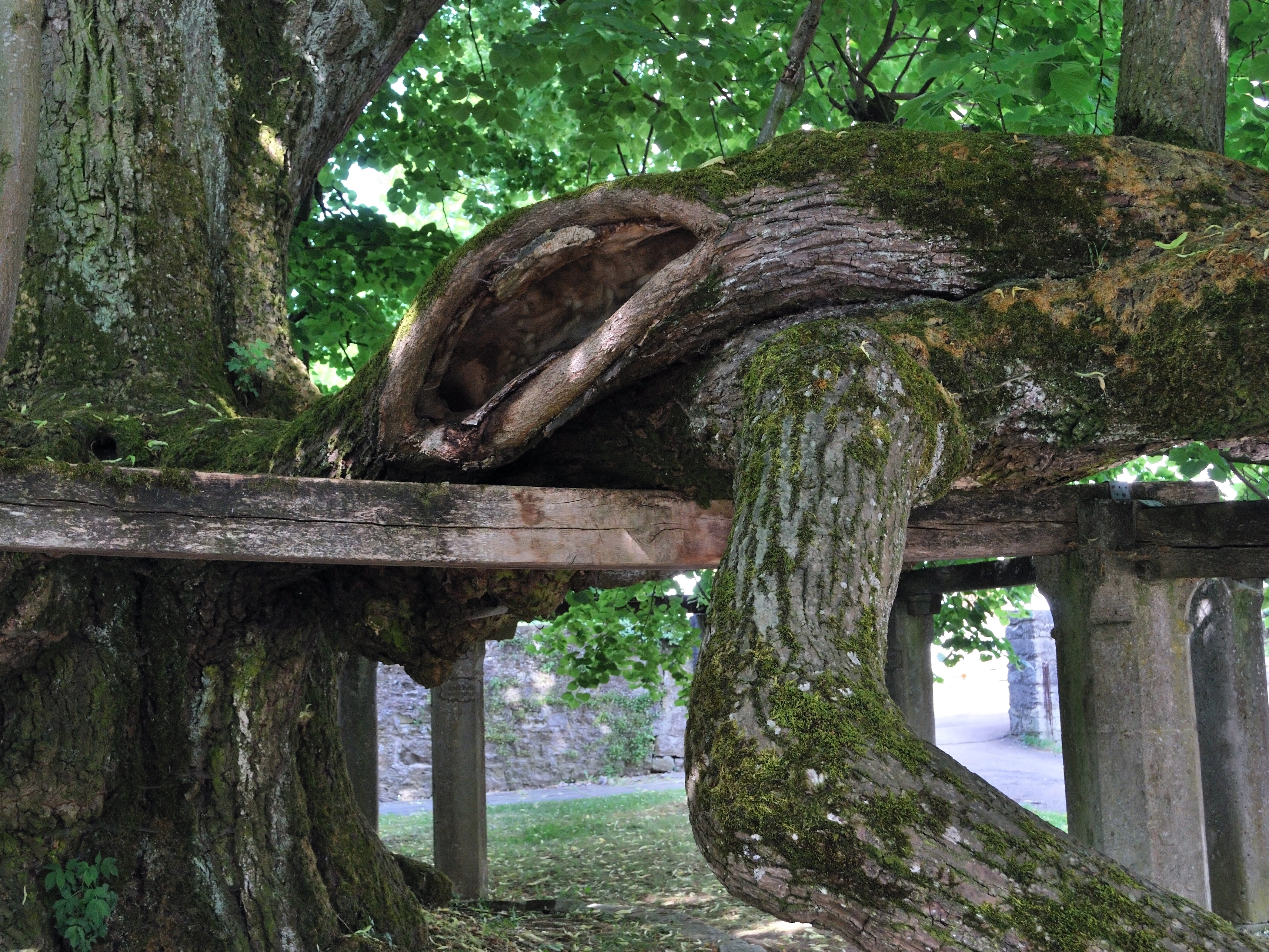 An old lime tree in Hollenbach, one of the oldest lime trees in Southern Germany.